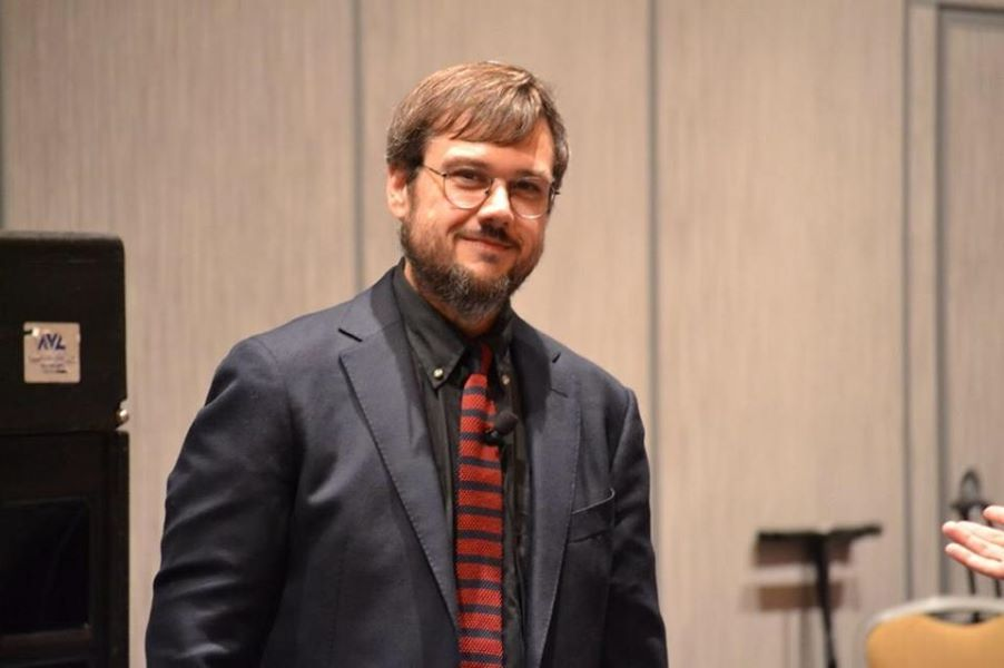 Photo taken by myself at DragonCon 2014 in Atlanta of Ken Plume.